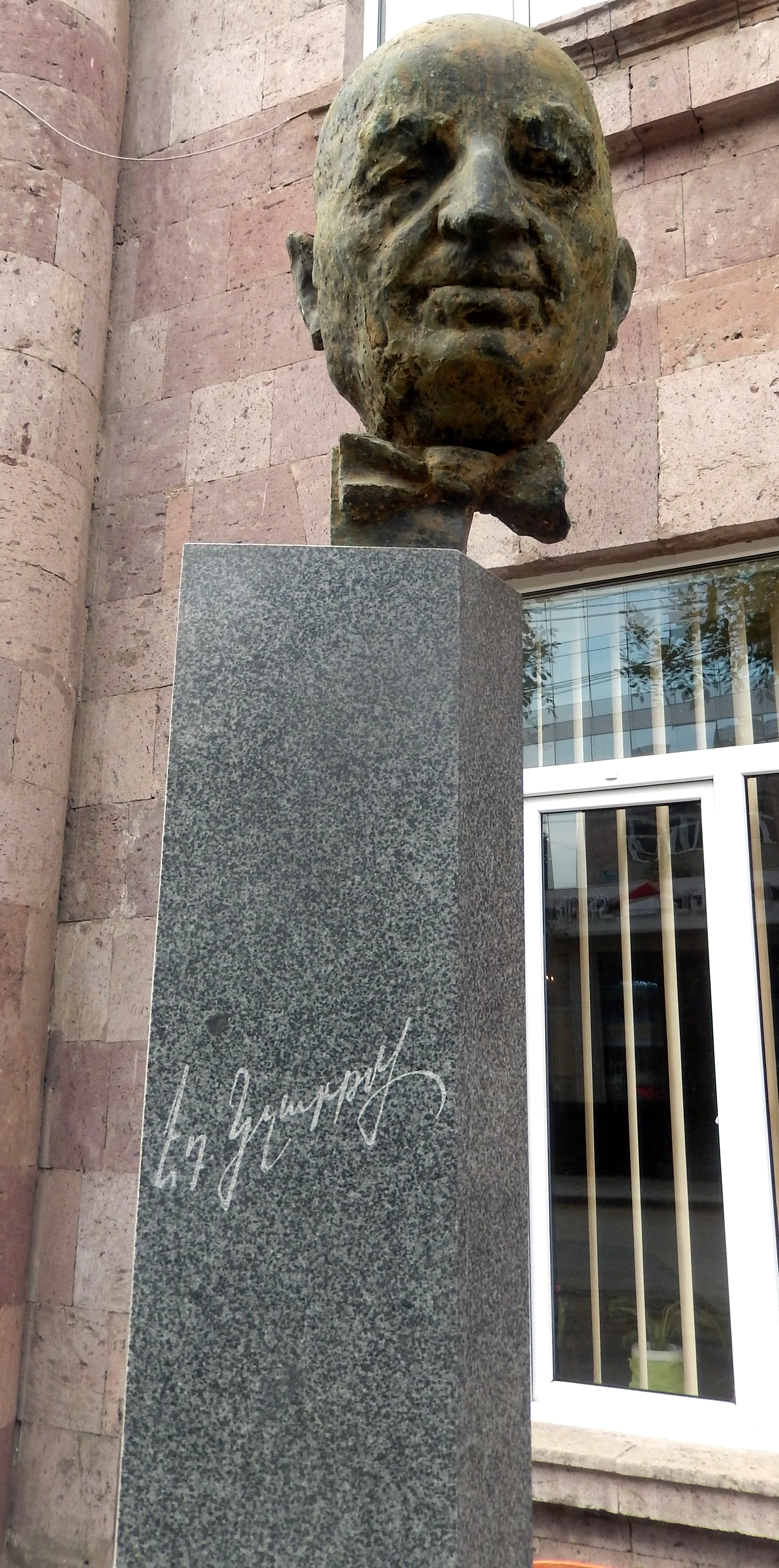 Edward Kzartmyan's bust in Vanadzor